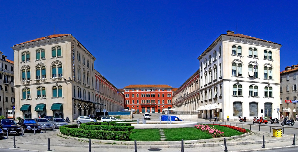 Split - Prokurative - wide